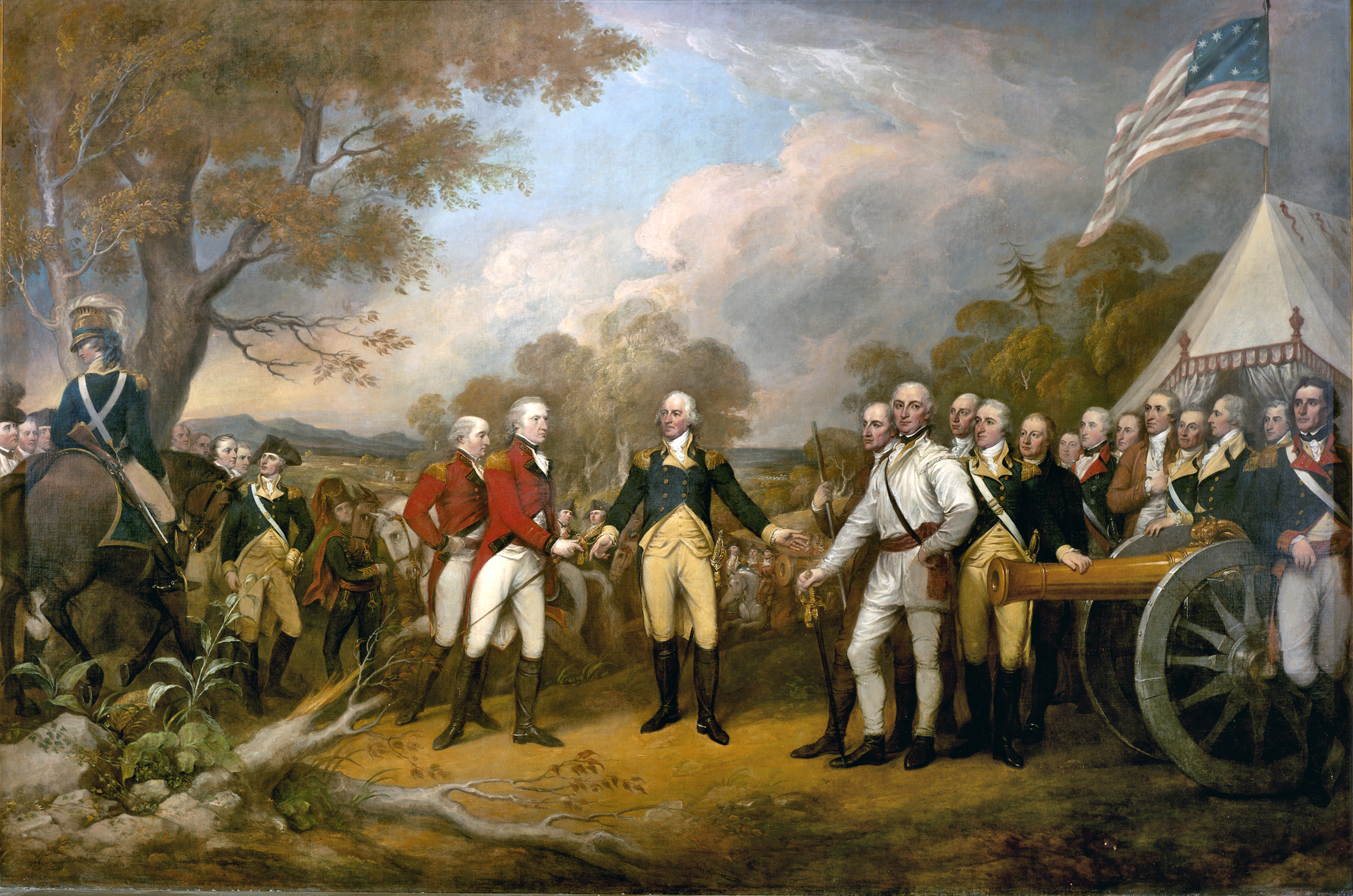 The scene of the surrender of the British General John Burgoyne at Saratoga, on October 17, 1777, was a turning point in the American Revolutionary War that prevented the British from dividing New England from the rest of the colonies. The central figure is the American General Horatio Gates, who refused to take the sword offered by General Burgoyne, and, treating him as a gentleman, invites him into his tent. All of the figures in the scene are portraits of specific officers. Trumbull planned this outdoor scene to contrast with the Declaration of Independence beside it.John Trumbull (1756–1843) was born in Connecticut, the son of the governor. After graduating from Harvard University, he served in the Continental Army under General Washington. He studied painting with Benjamin West in London and focused on history painting. Major figures in the painting (from left to right, beginning with mounted officer): American Captain Seymour of Connecticut (mounted) American Colonel Scammel of New Hampshire (in blue) British Major General William Phillips (British Army officer) (in red) British Lieutenant General John Burgoyne (in red) American Major General Horatio Gates (in blue) American Colonel Daniel Morgan (in white) A full key is available here. The dimensions of this oil painting on canvas are 365.76 cm by 548.64 cm (144.00 in by 216.00 in).